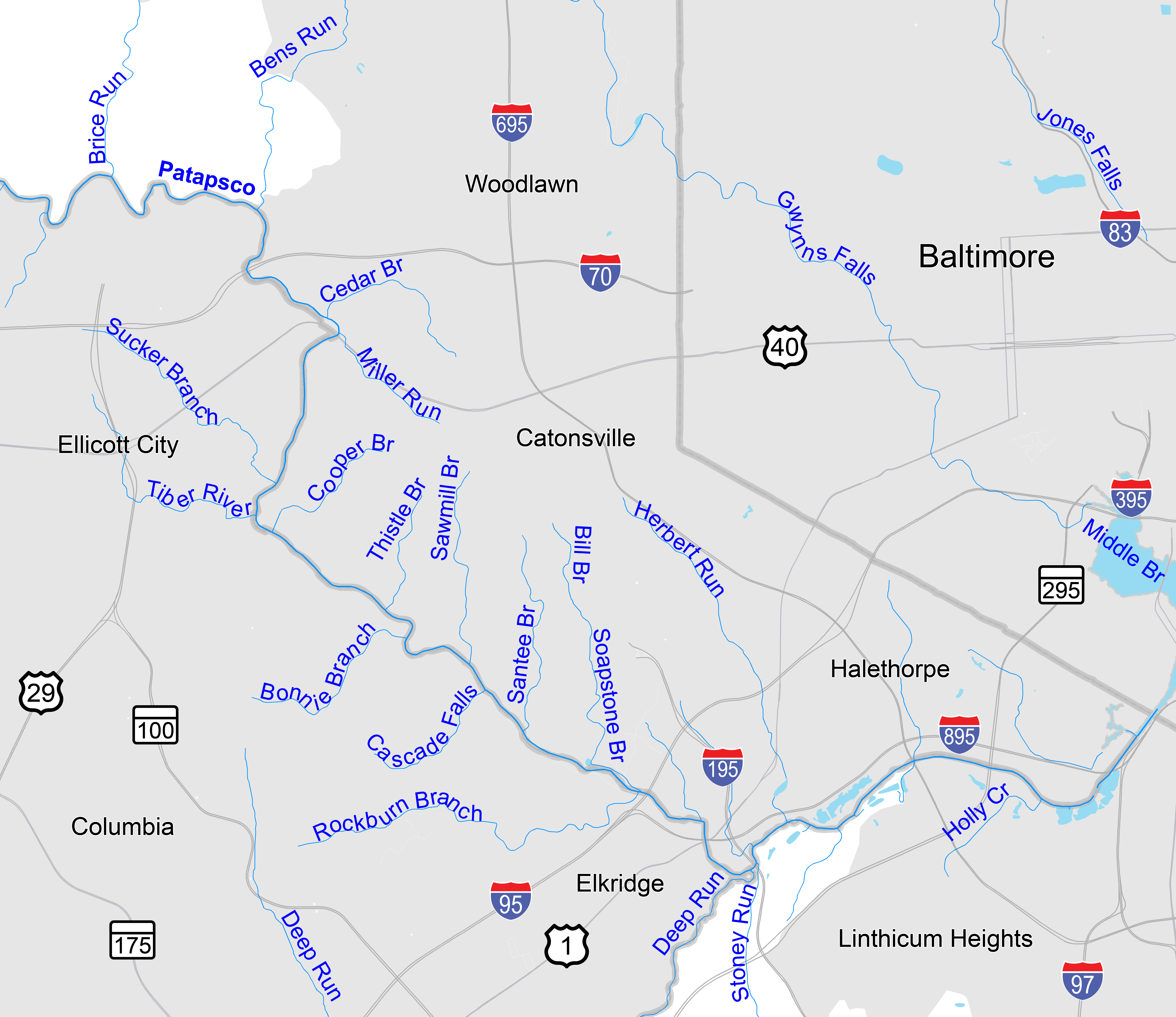 A map showing the tributaries and nearby towns of the central Patapsco Valley watershed in Maryland, U.S.